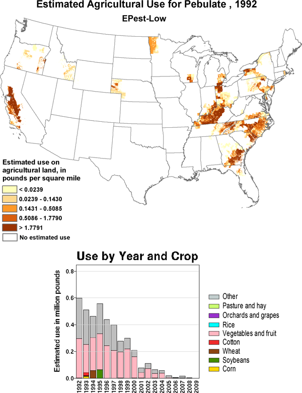 Pebulat map of use, USA, 1992 (estimated)